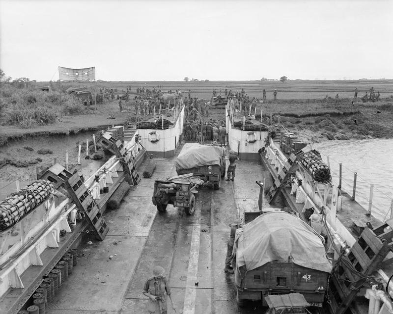 The British Army in Burma 1945 Unloading a landing craft of troops and vehicles of the 15th Indian Corps at Elephant Point, south of Rangoon at the beginning of operation 'Dracula', 2 May 1945.